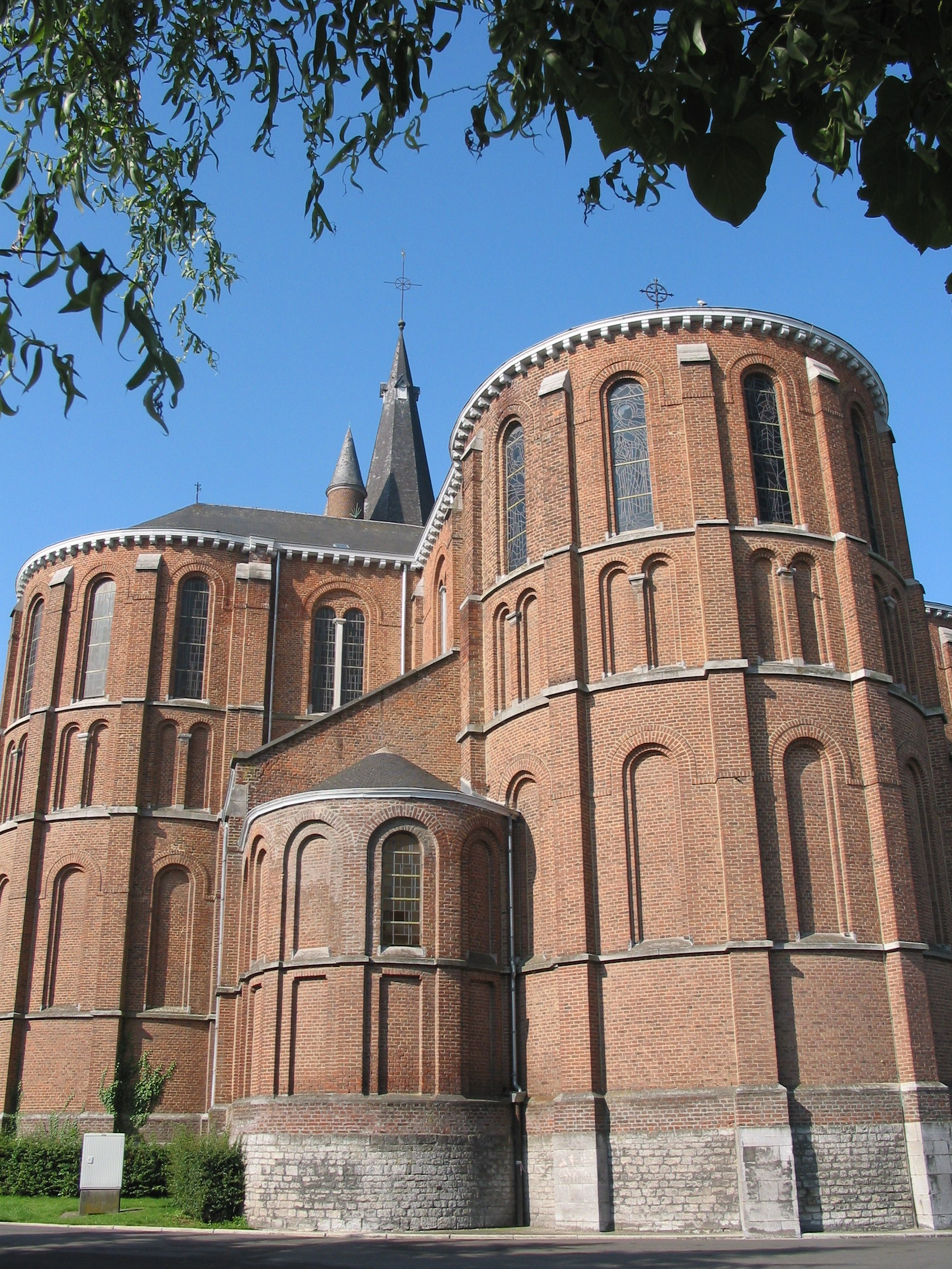 Seneffe (Belgium), the church of Saint Cyrus and Julitte (architect:J. Bruyenne - 1877).